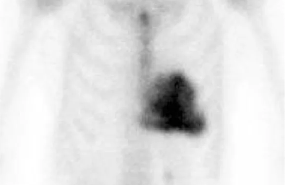 Occult Transthyretin Amyloid Deposition in Aortic Stenosis; detected by DPD scintigraphy.